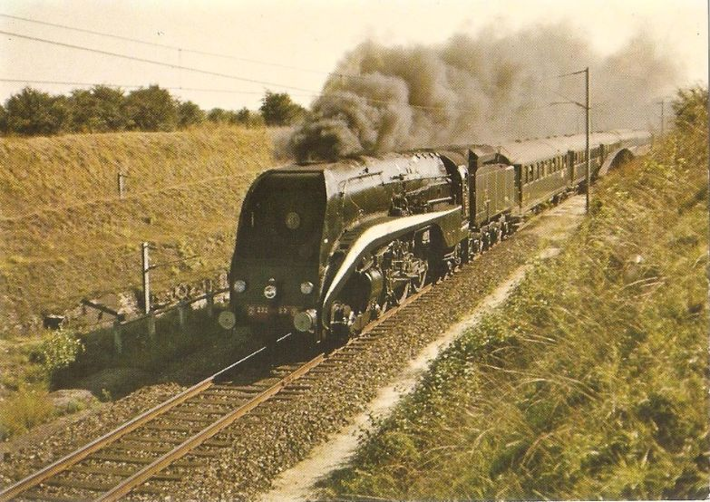 Steam French locomotive heading a passenger train.